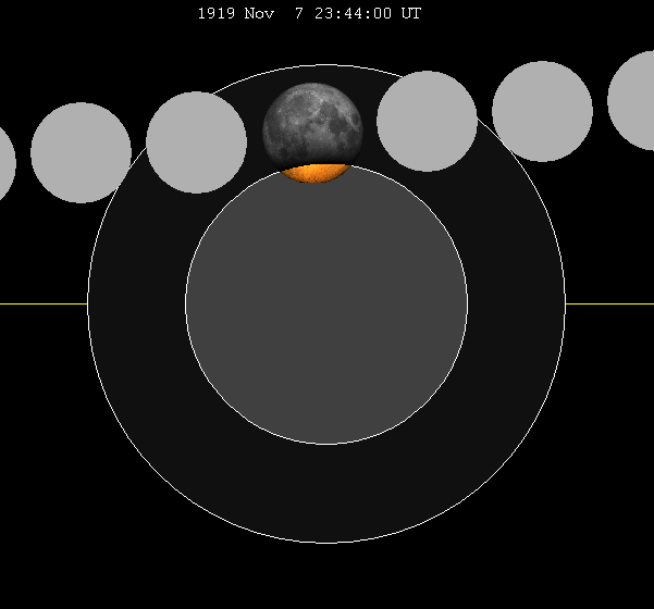 =lunar eclipse chart of moon's path through the earth's shadow. thumb